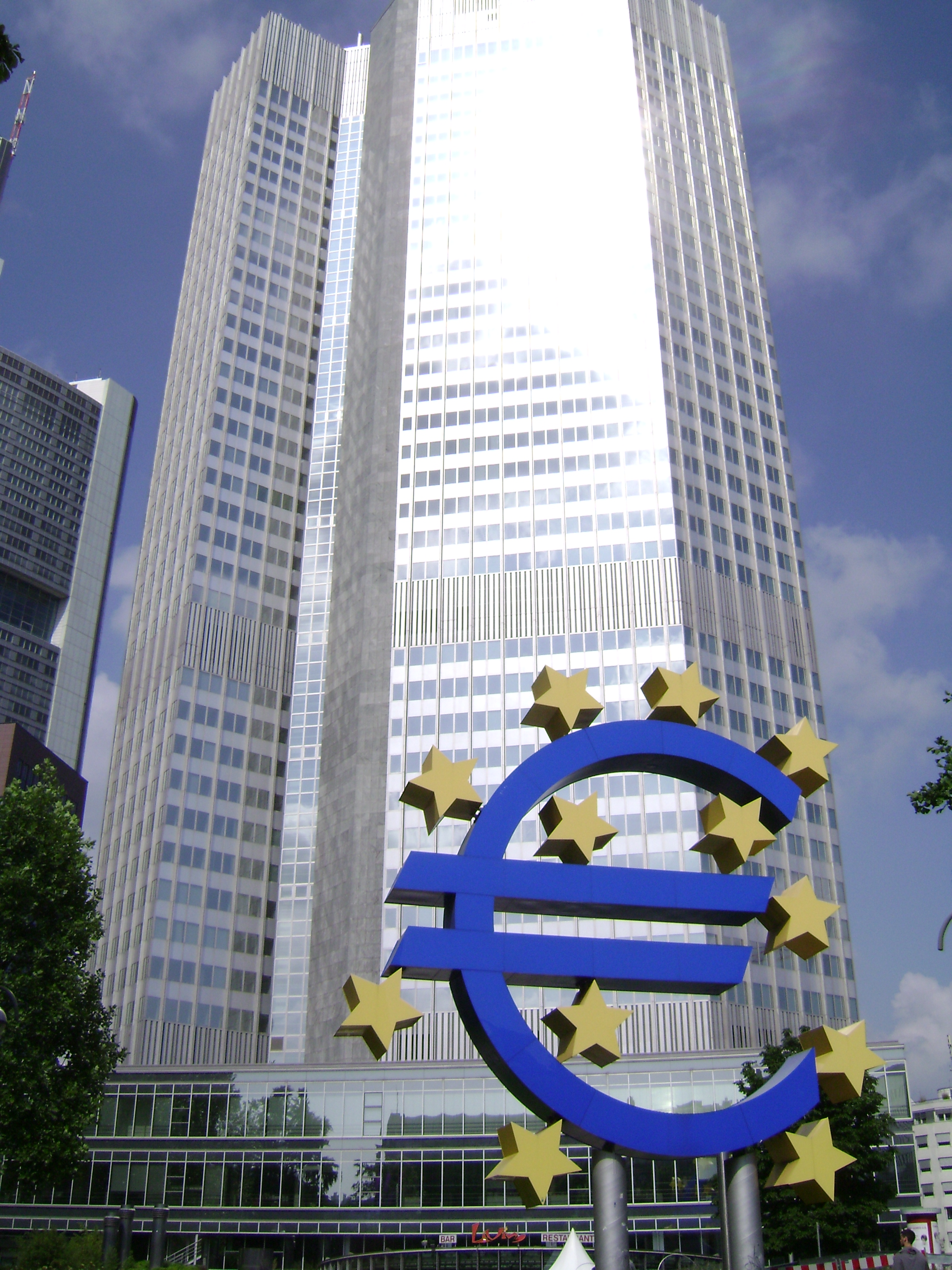 European Central Bank in Frankfurt